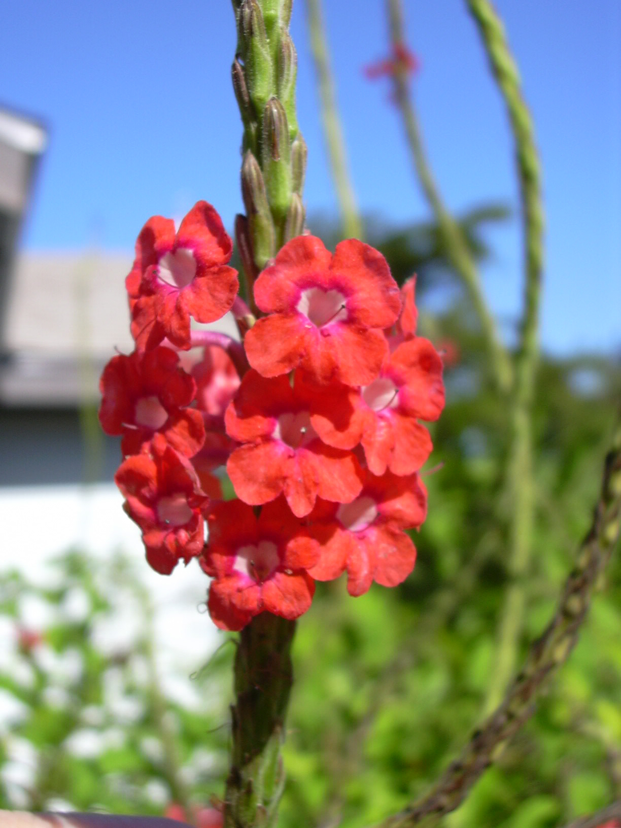 Stachytarpheta mutabilis (flowers). Location: Florida, Turtle Beach